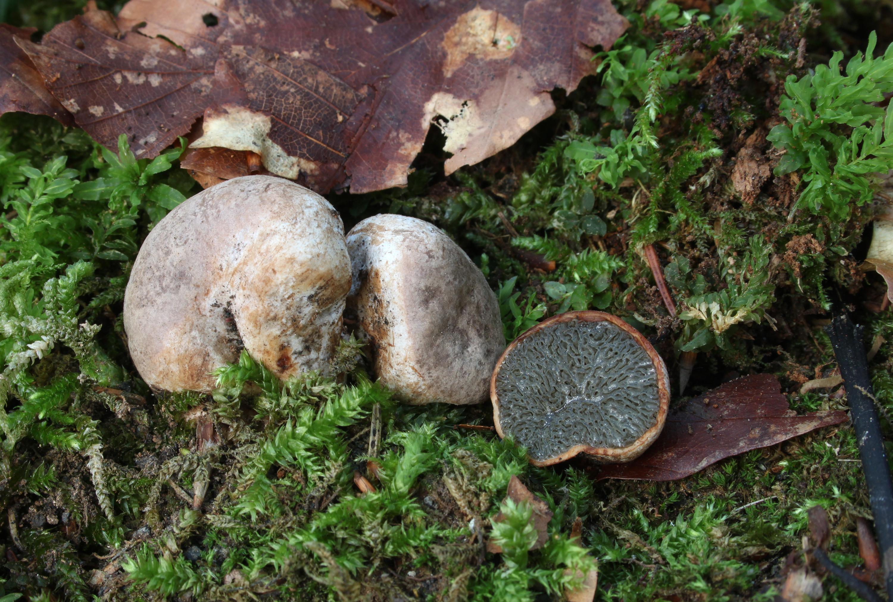 Hysterangium stoloniferum, Family: Hysterangiaceae, Location: Germany, Ulm, Ringingen Thanks for the help: AMU (Mycological Working Group Ulm), R. Seibert, K. Keck, J. Marqua, G. Hensel. Hint: Only area geotagging because it´s a very rare species.